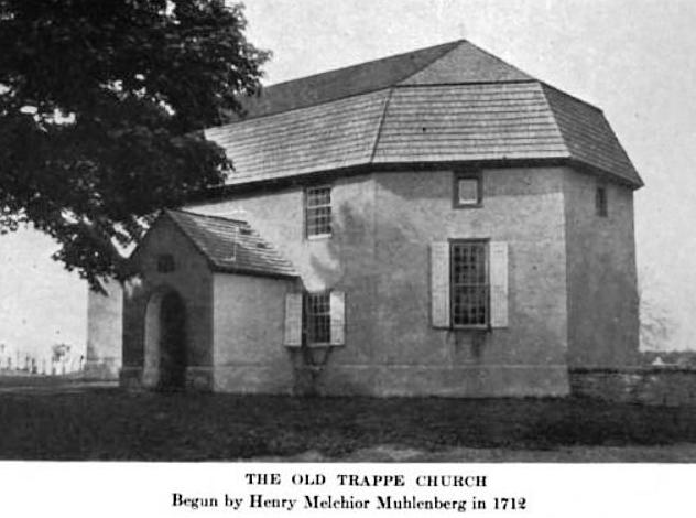 Exterior of the Old Trappe Church founded by Henry Muhlenberg in 1712 as it appeared circa 1919